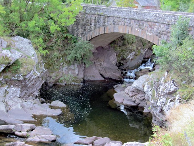 Pozo Negro. Deep Pool in Híjar River, Cantabria, Spain.